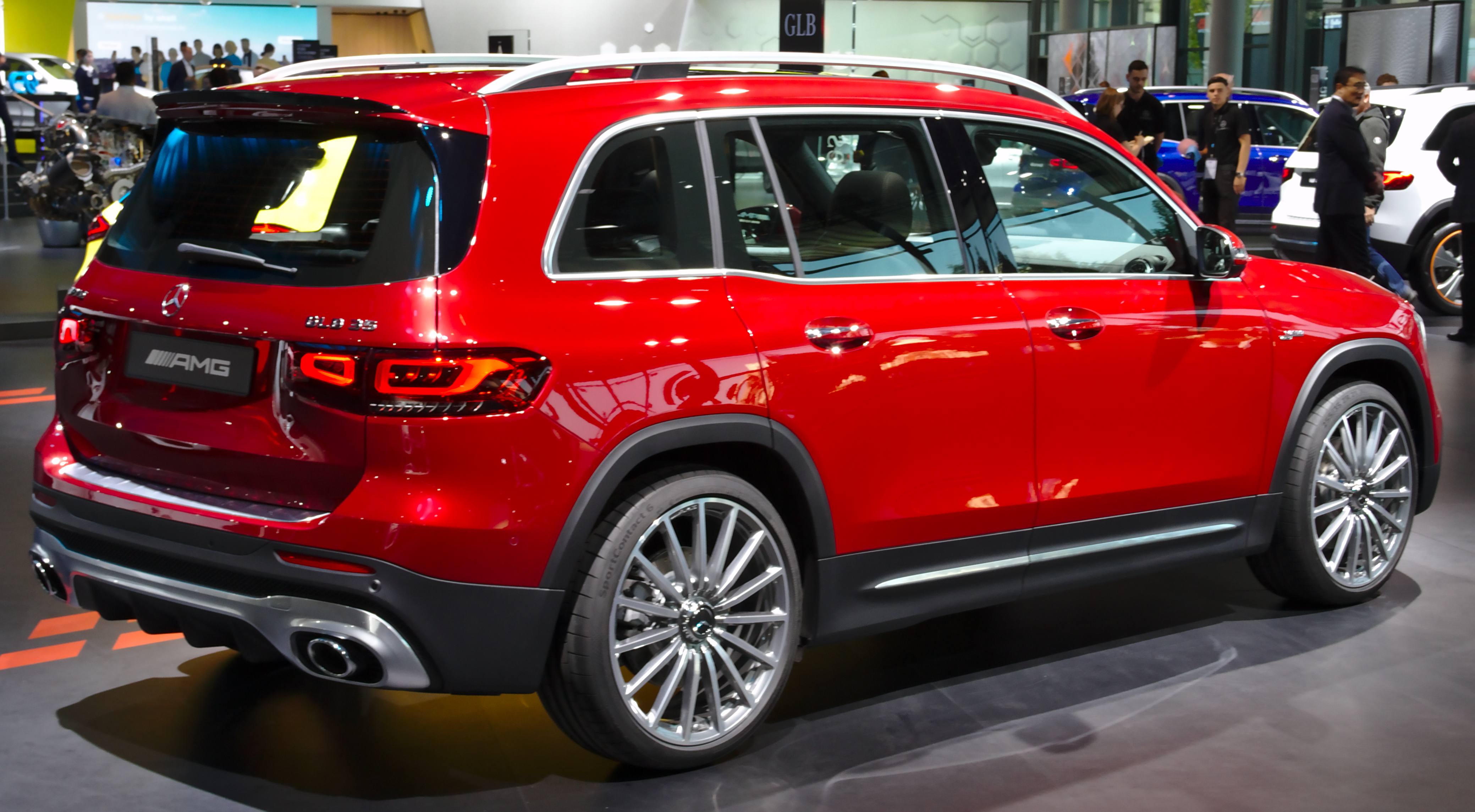 Mercedes-AMG_GLB_35_4MATIC_(X247) at IAA 2019